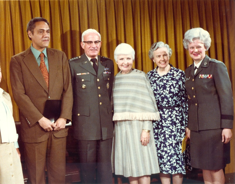 Group Photo at WAC Disestablishment Ceremony